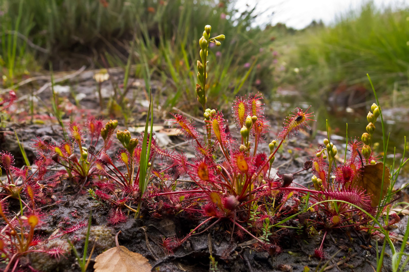 Drosera in the Gildehauser Venn, Germany.